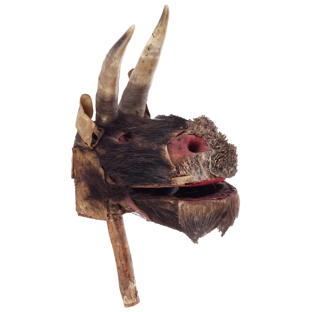 Turoń head made with real fur and hedgehog skin